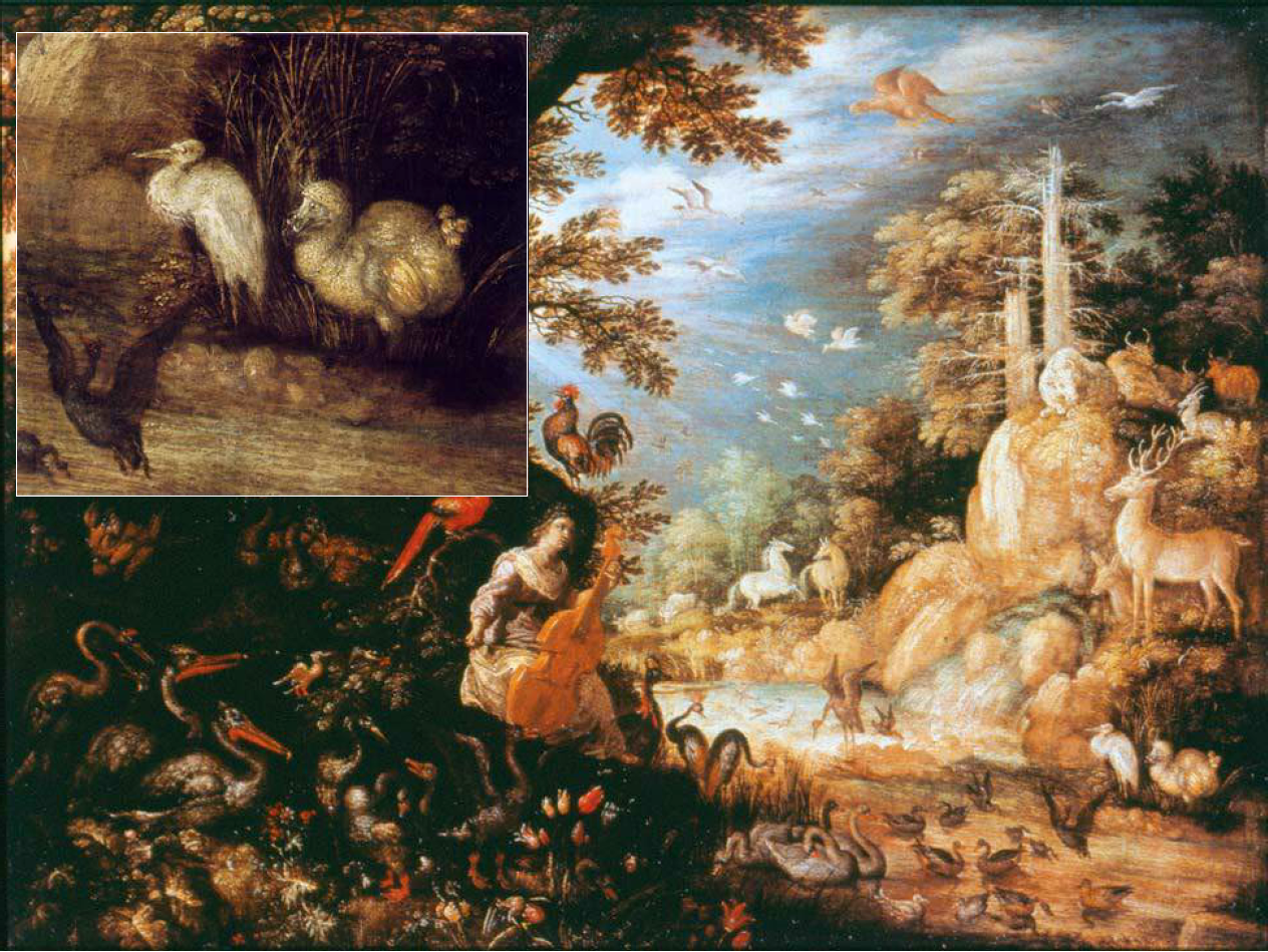 "Landscape with Orpheus and the animals" apparently showing a white dodo in the lower right corner, which may be the source of all subsequent depictions of white dodos.